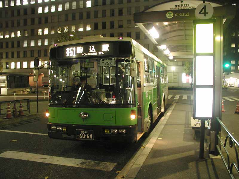 Toei Bus "Cha 51" route was operated to Tokyo station (Marunouchi North), stopped in December 2000. Model: Isuzu Cubic U-LV324K + FHI 7E body License Plate: TKN22 KA6064 Place: Tokyo Station: Marunouchi, Chiyoda Ward, Tokyo Japan